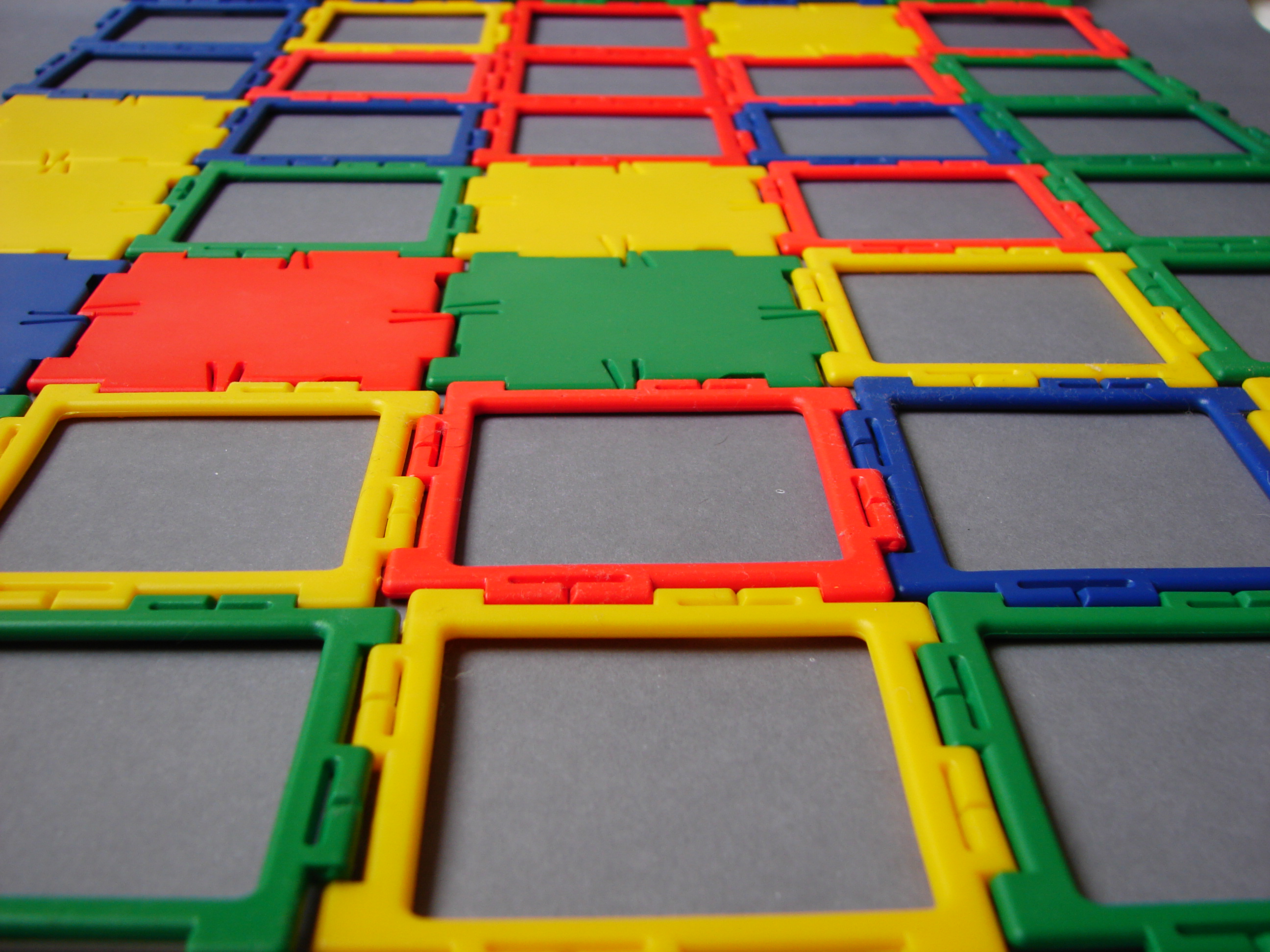 Polydron, Geometrical toys